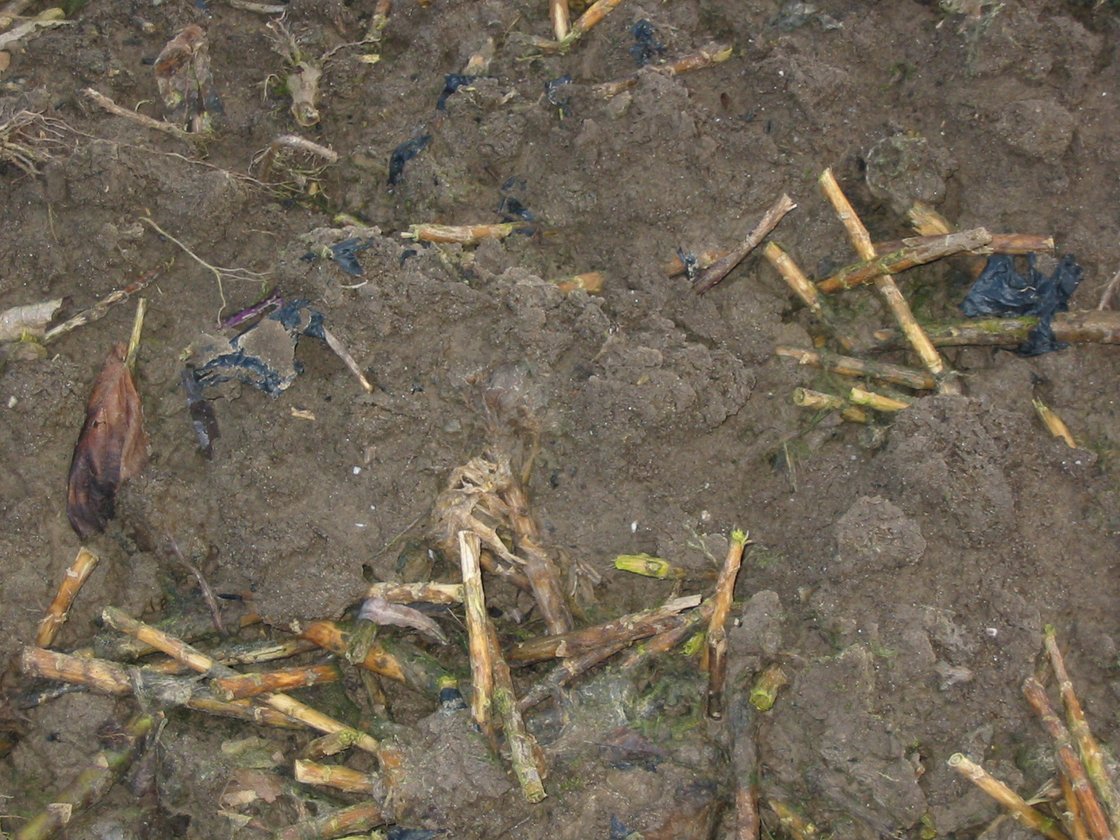 Mulch film Bio-Flex, biodegraded